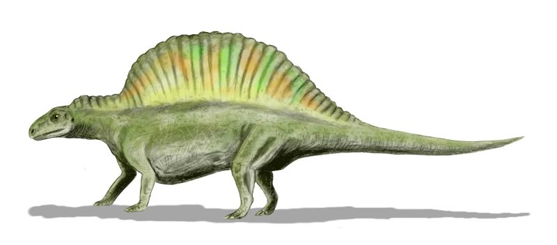 Ctenosauriscus koeneni, an enigmatic archosaur from the Late Triassic of Germany. Only the sail being known, the reconstruction of the body is hypothetical, based on its possible affinities with Lotosaurus, pencil drawing